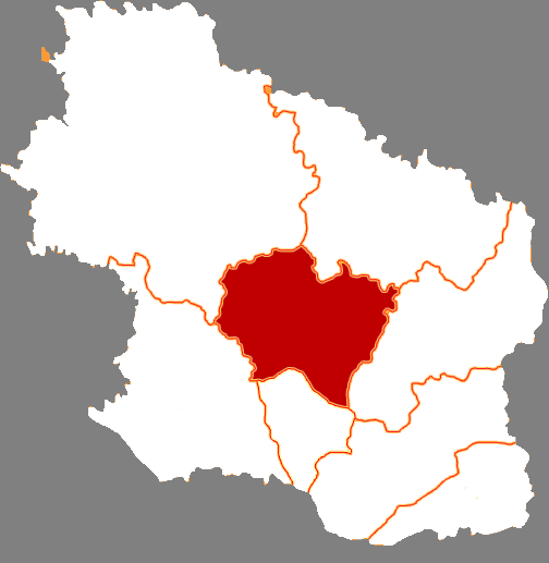 Location of Qingcheng county in Qingyang city, China